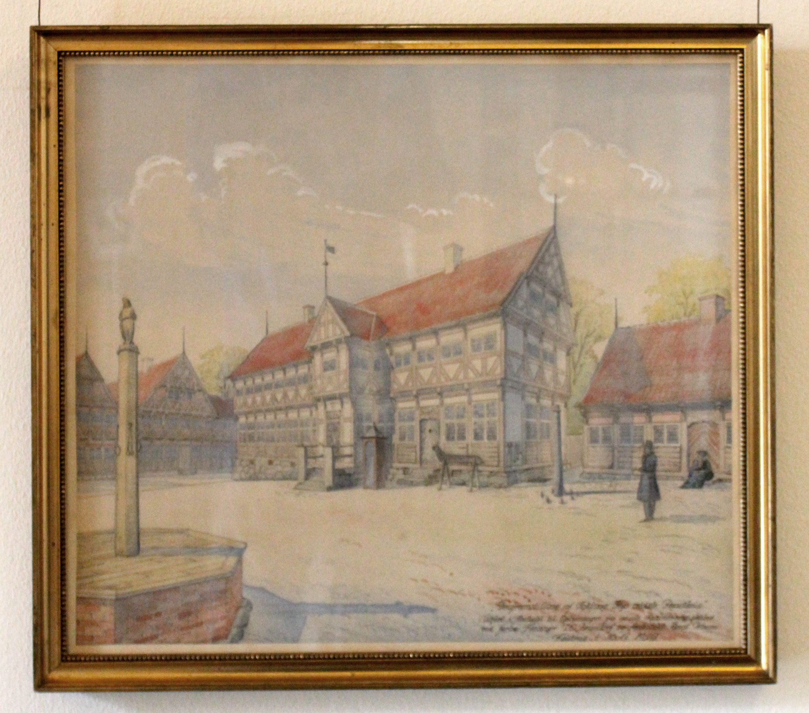 Cityhall. Reconstructiondrawing. There have been town hall on the site since the 1500's. Kolding, Denmark.